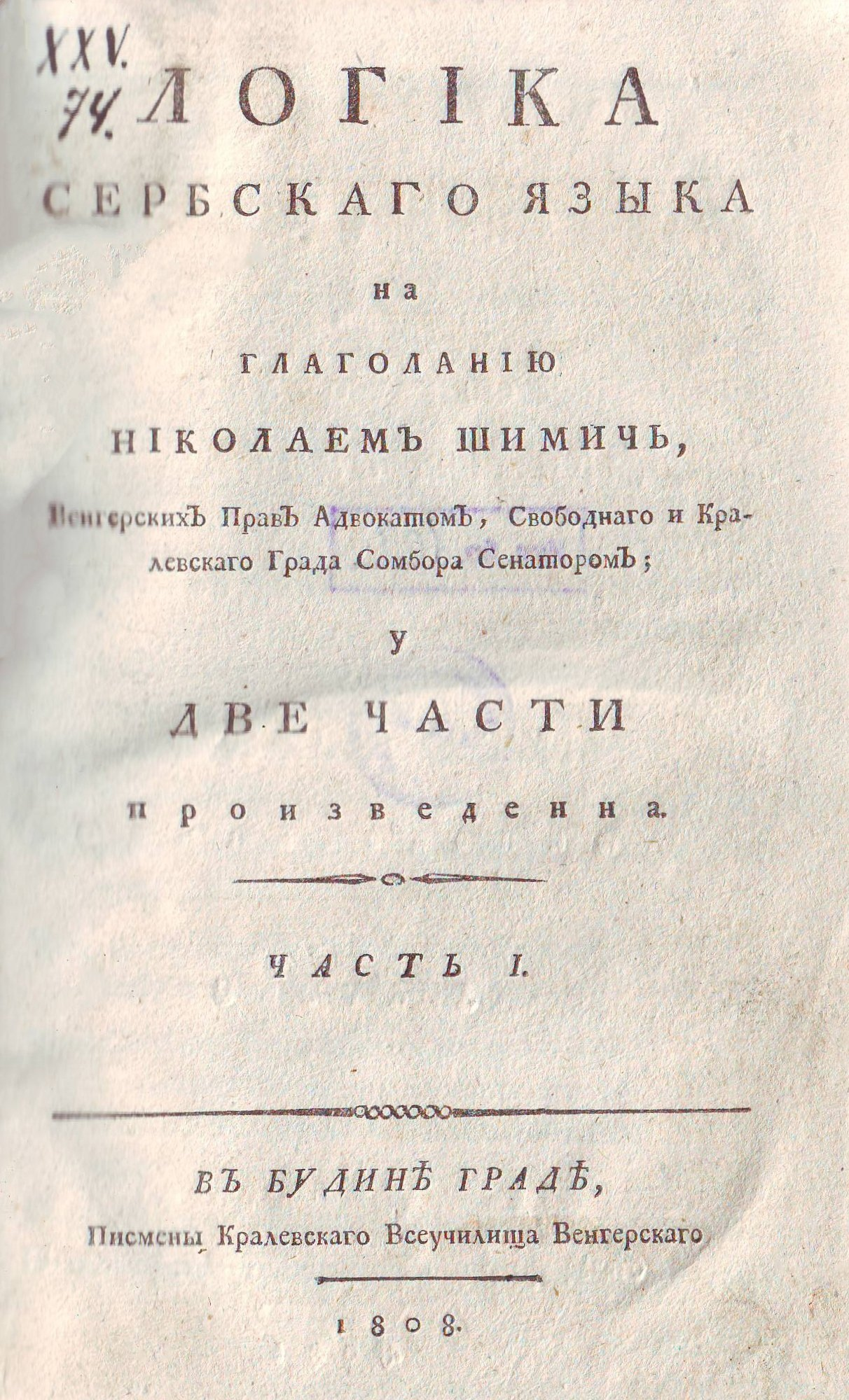 Cover of the first book of Logika serbskago jazika (1808) by Nikolaj Šimić. Srpski (latinica): Naslovna strana prve knjige Logike serbskago jazika (1808) Nikolaja Šimića.